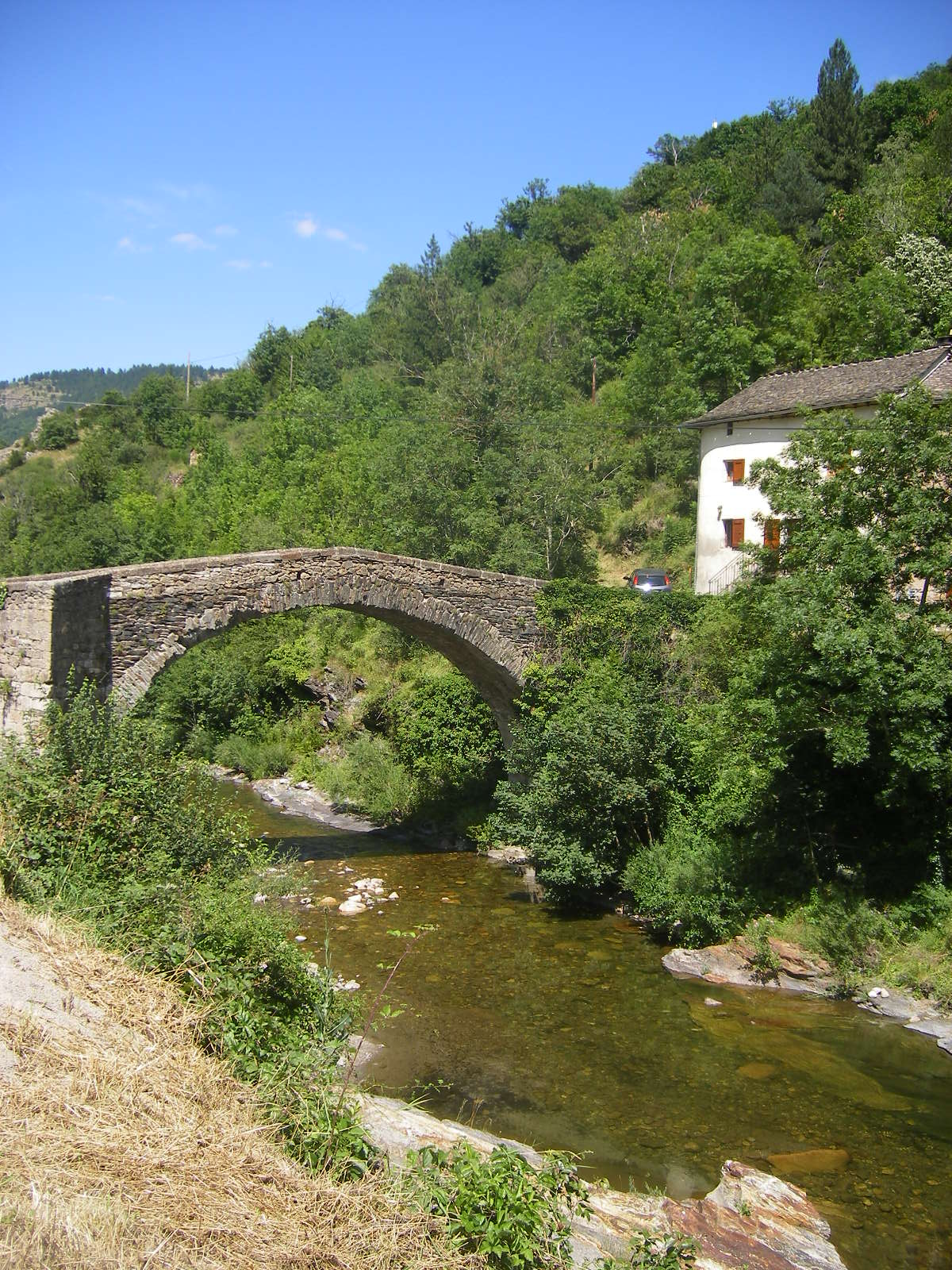 Florac - bridge on Tarnon river, southward from the town